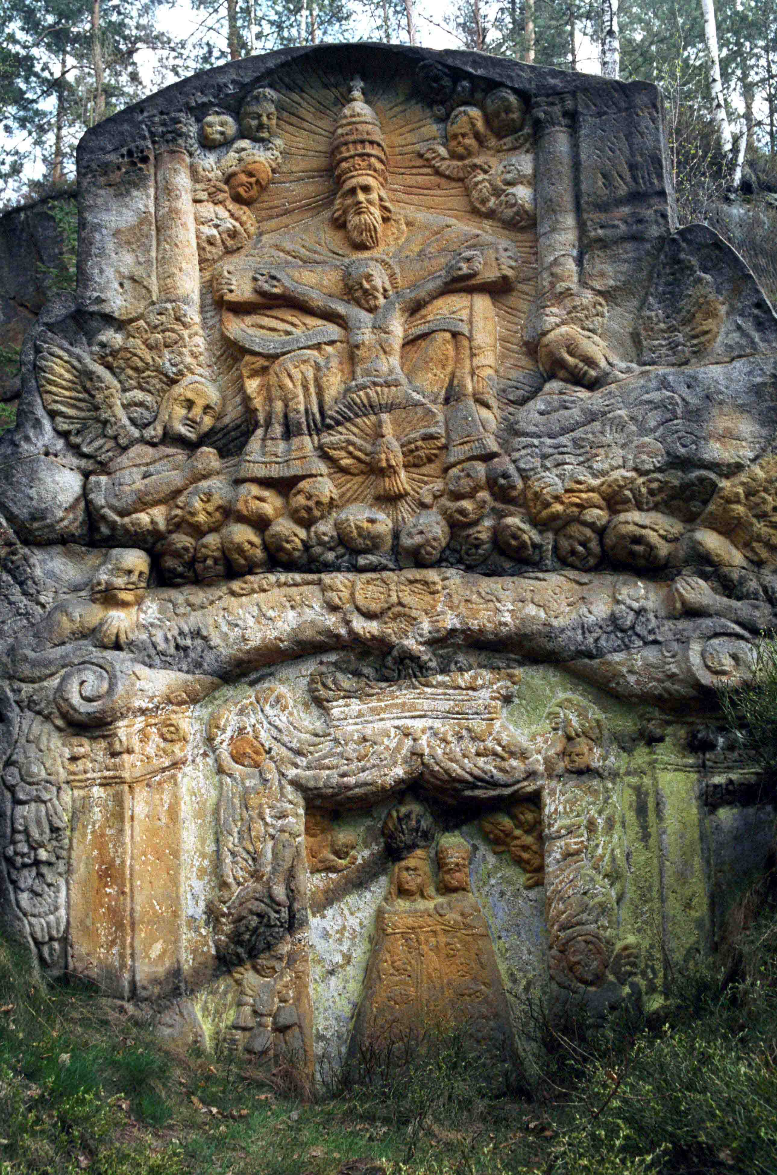 Holy Trinity relief on sandstone rock south of Mařeničky, Lusatian Mountains, Česká Lípa District, Czech Republic.